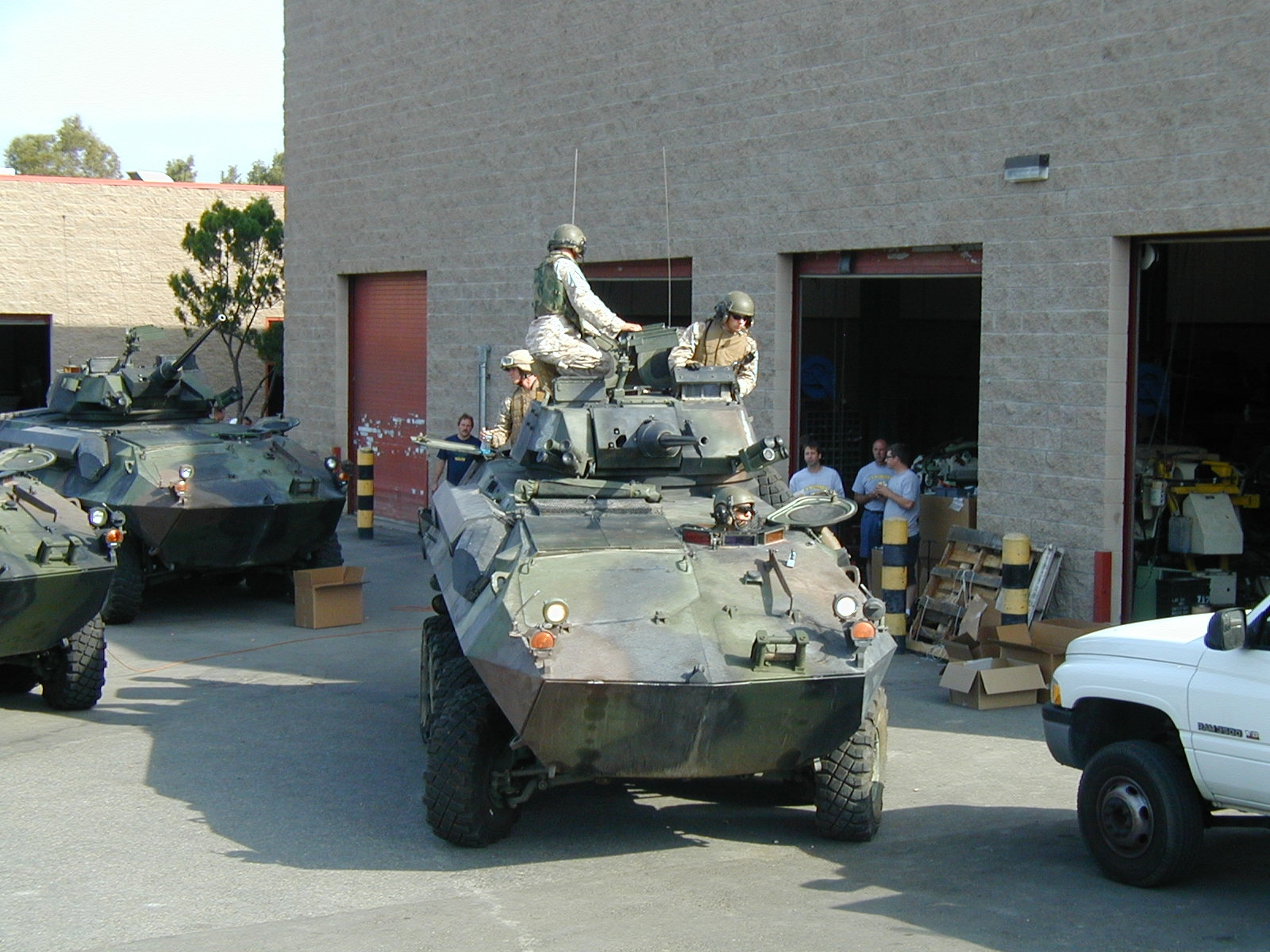 US Marines test prototype combat electronics after installation by Steve Butler and Delphi team.